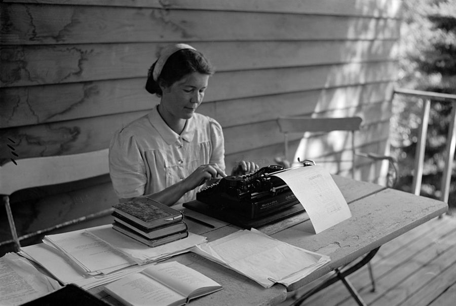 Finnish poet Aale Tynni is depicted in her creative work on the porch of her summer cottage.